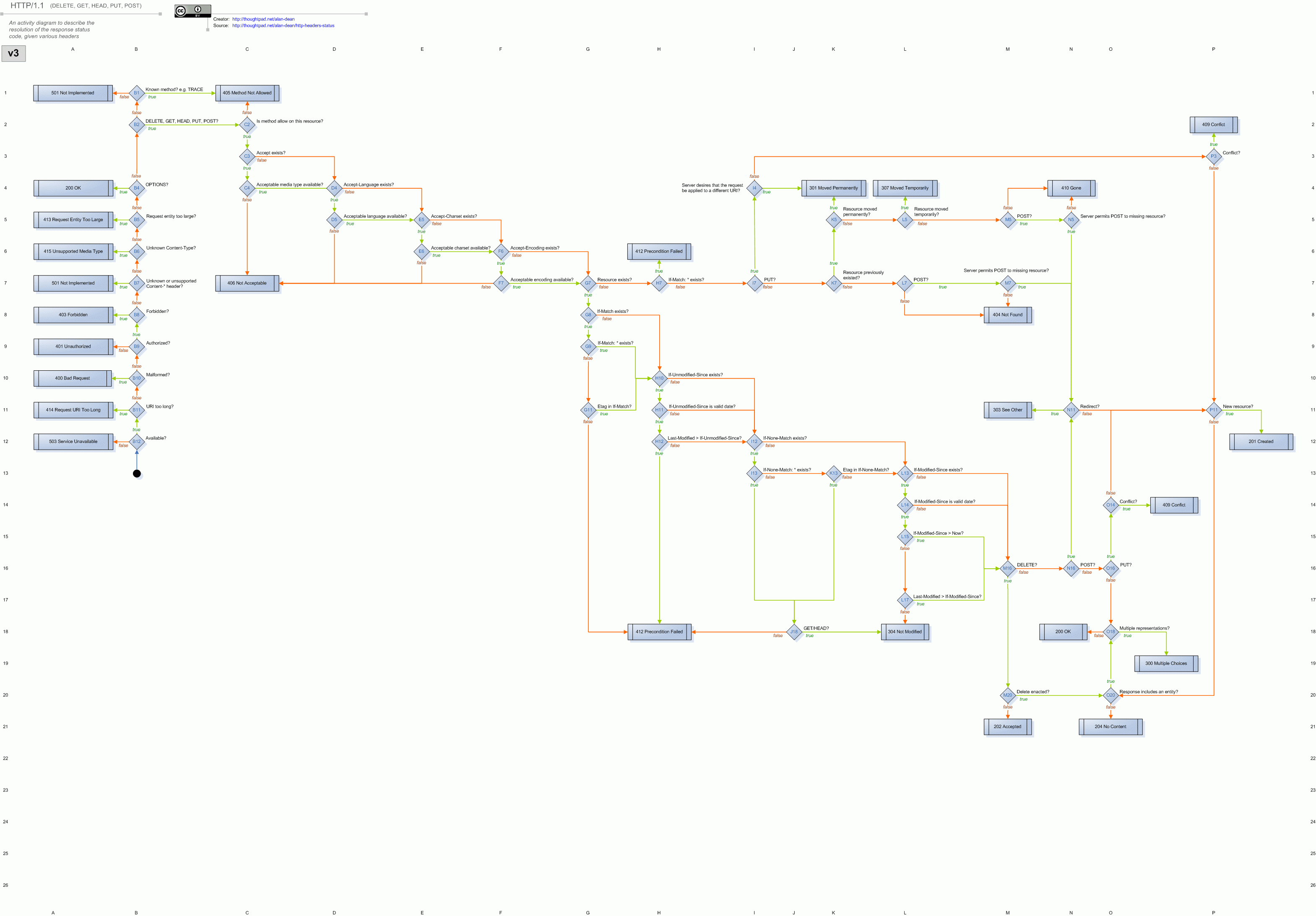 HTTP/1.1 (DELETE, GET, HEAD, PUT, POST): An activity diagram to describe the resolution of the response status code, given various headers.